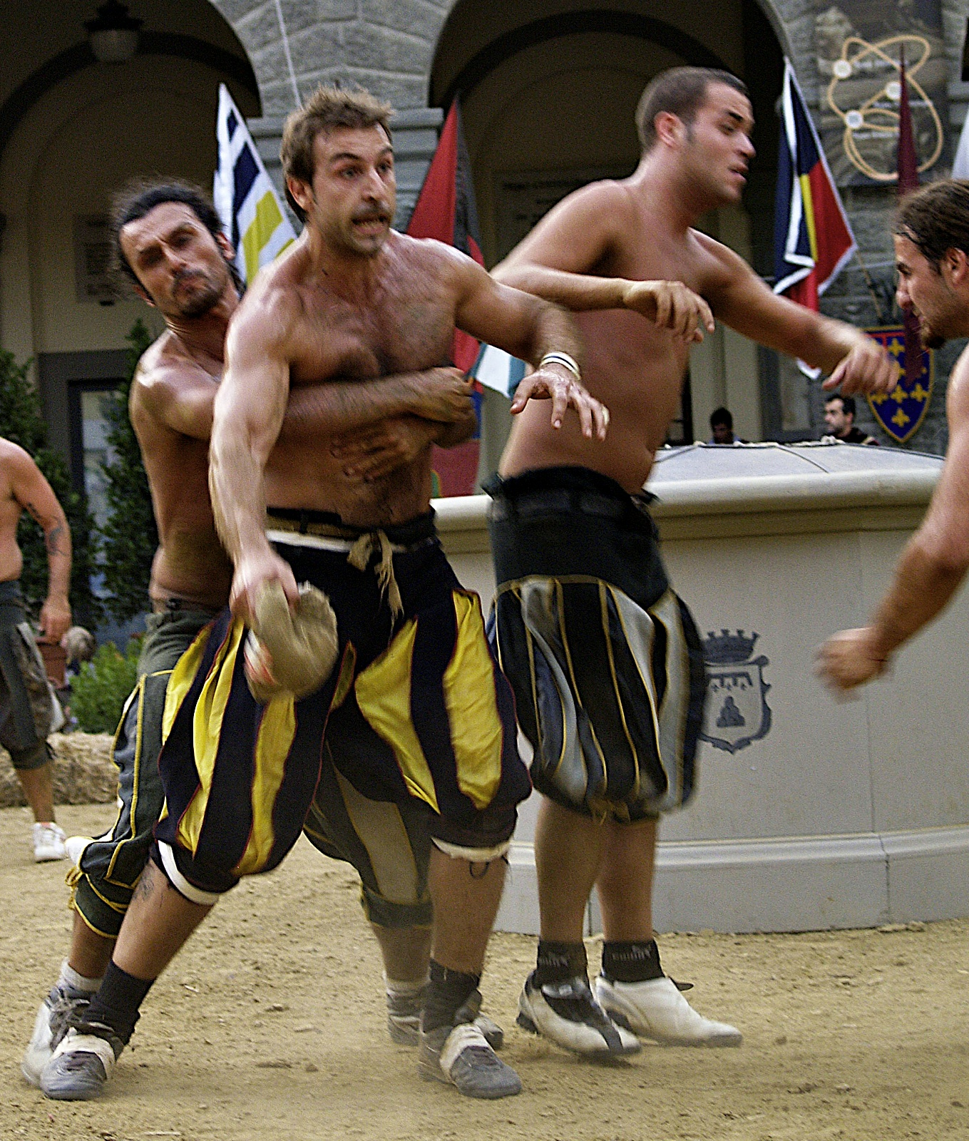 Holy Pardon Day 2008 Montevarchi. "Gioco del Pozzo".